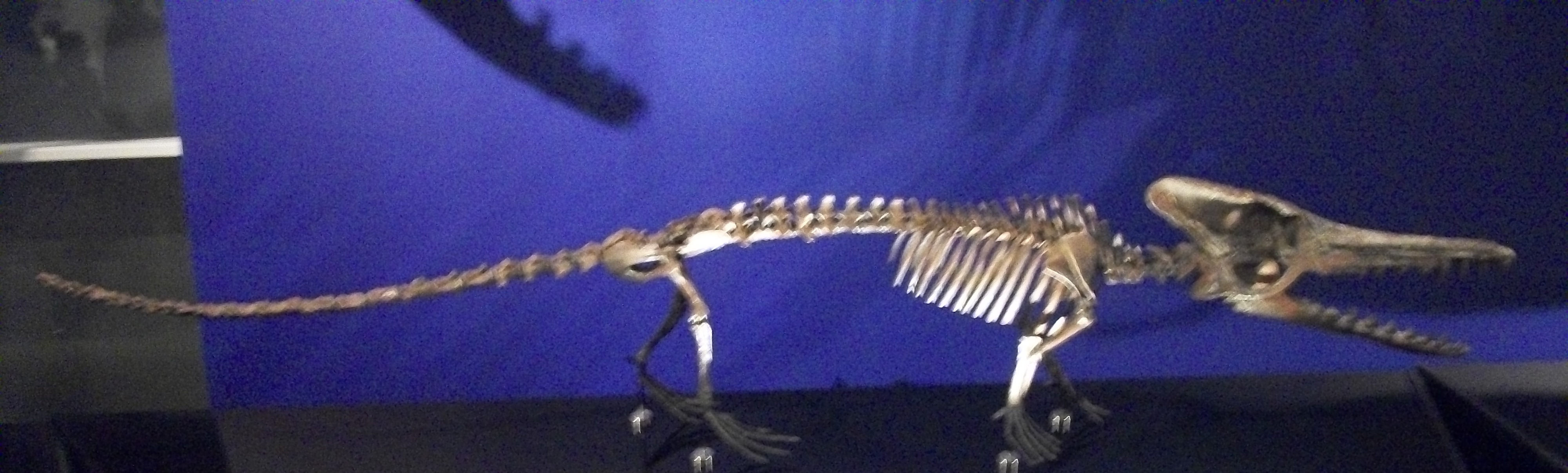 Skeleton cast of Kutchicetus minimus, including reconstructed parts, at the Canadian Museum of Nature